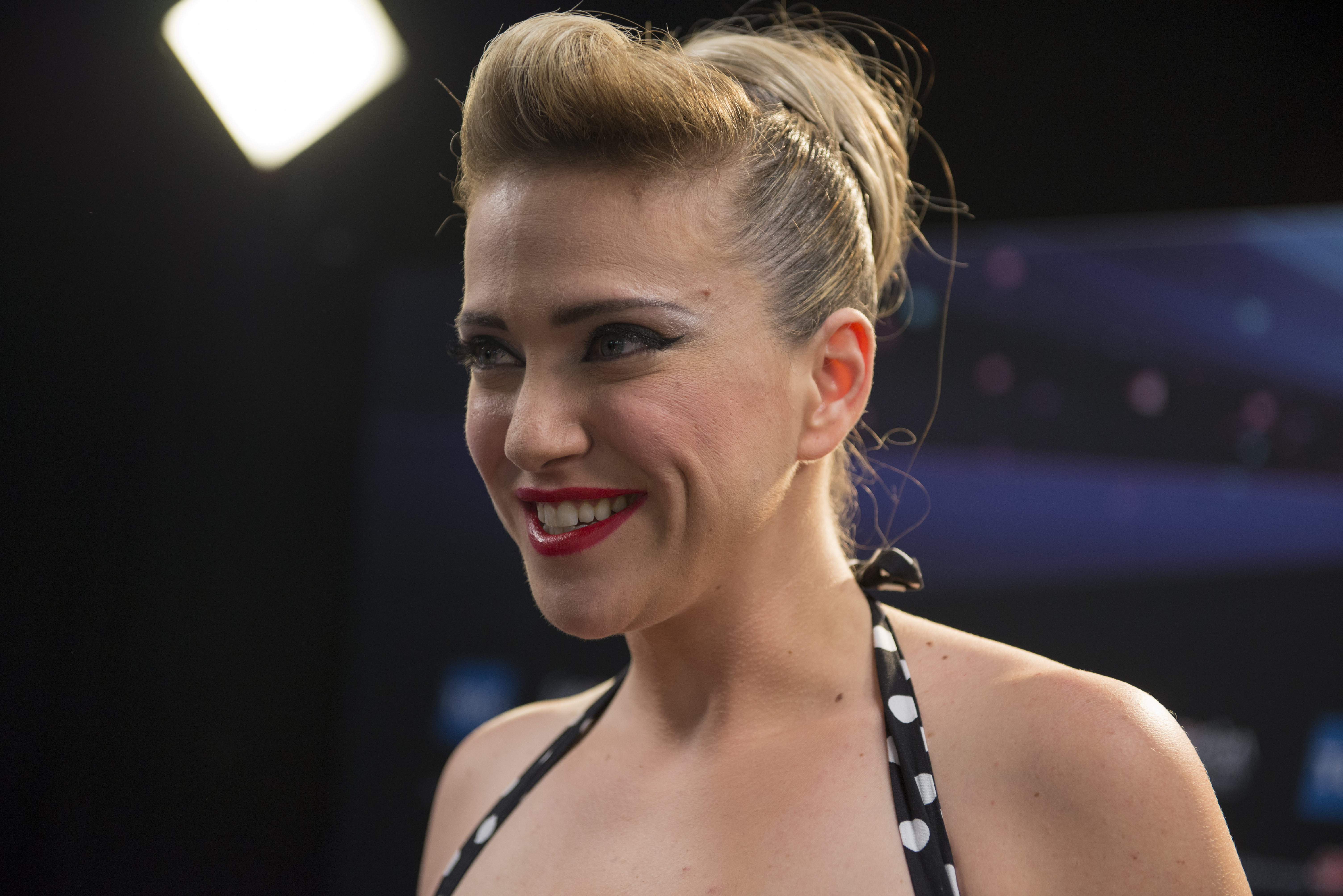 Mei Finegold at a Meet & Greet during the Eurovision Song Contest 2014 Copenhagen. (Help translate this text)